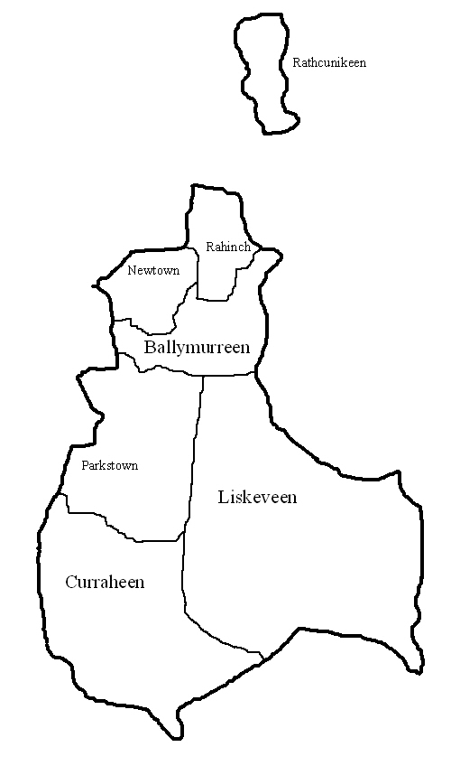 Townlands in Bakllymurreen civil parish in County Tipperary - has better text positioning than earlier version